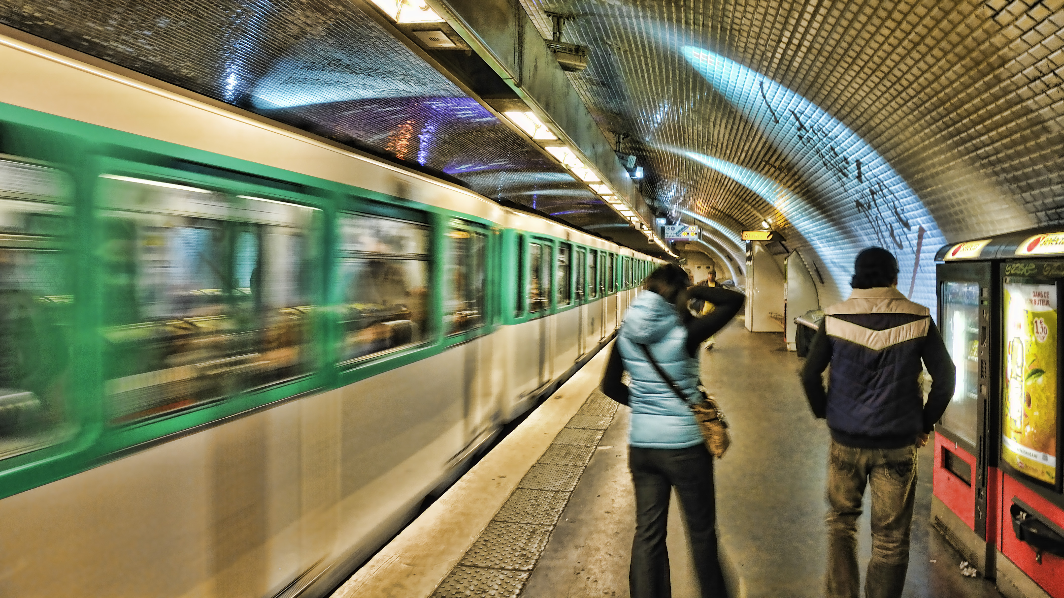 at the Saint Germain des Près Metro Station, Paris. Hand held played around with Topaz to make it a bit interesting.